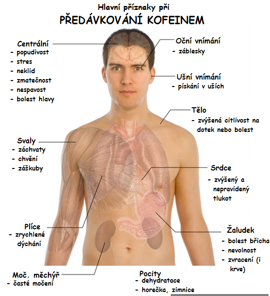 Translate of Main_symptoms_of_Caffeine_overdose.png for CZECH